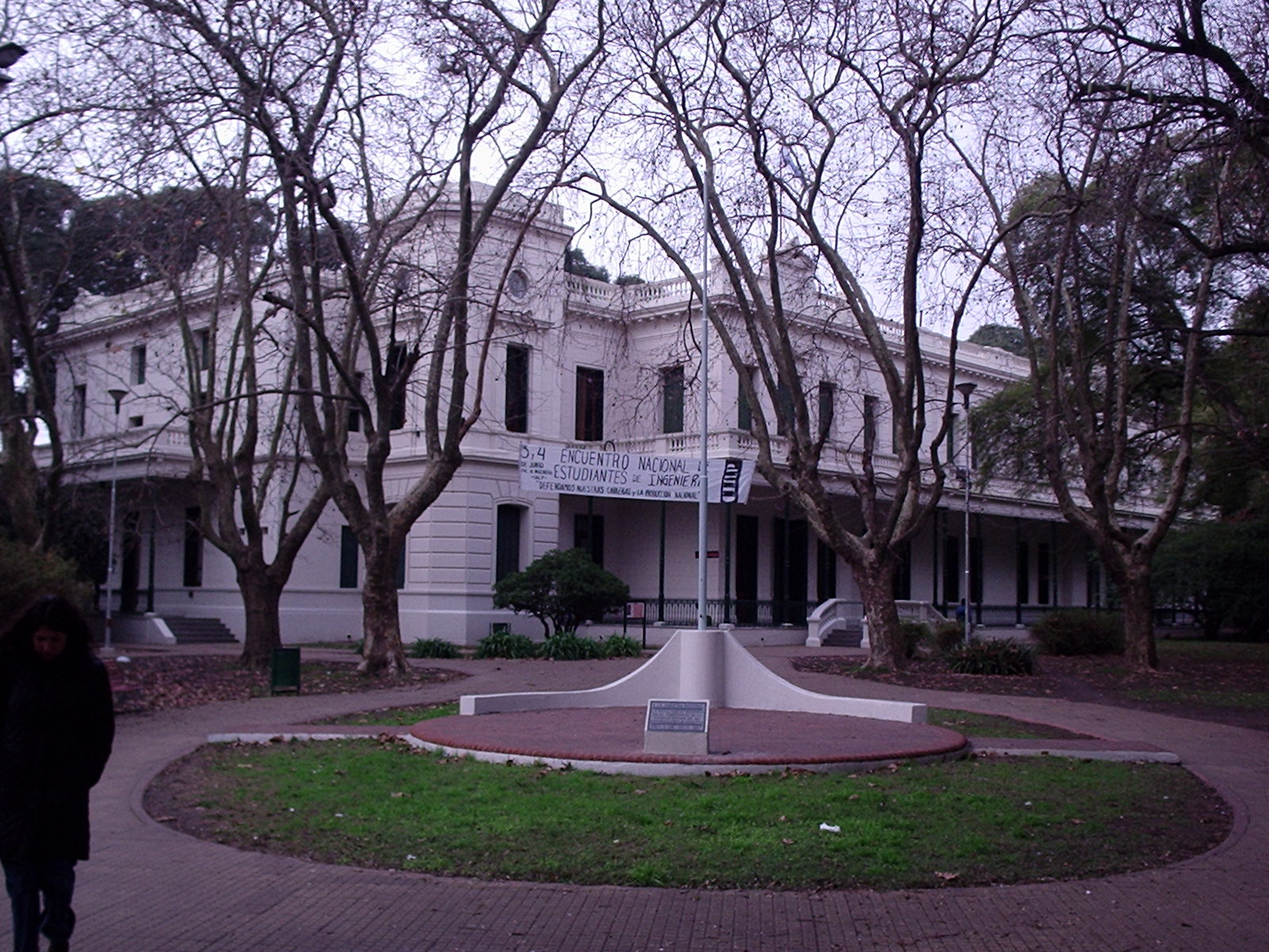 School of Engineering, University of La Plata, Argentina. ([1])